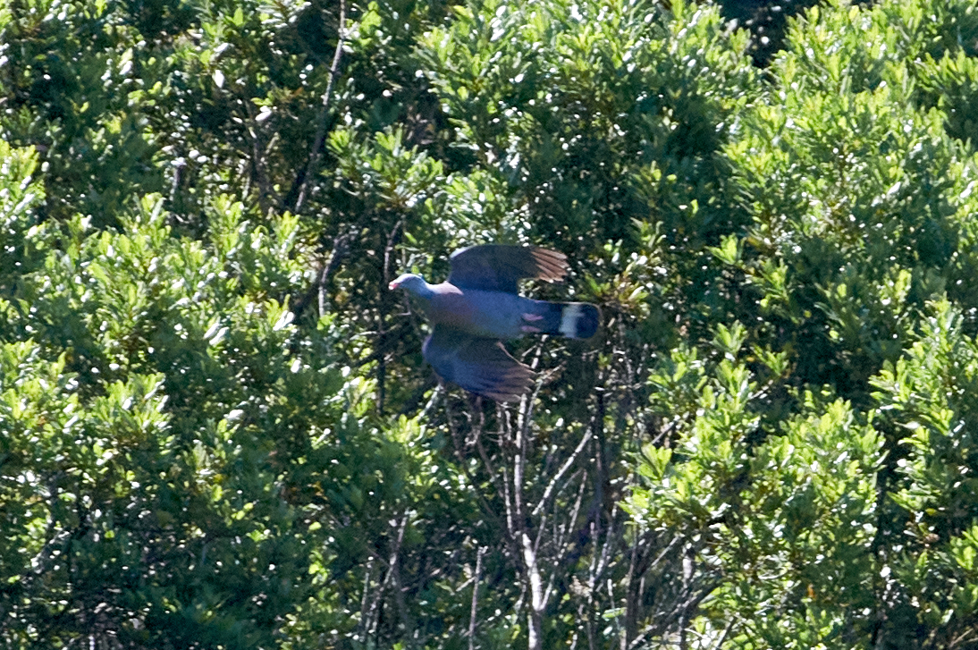 Trocaz pigeon (Columba trocaz), Madeira